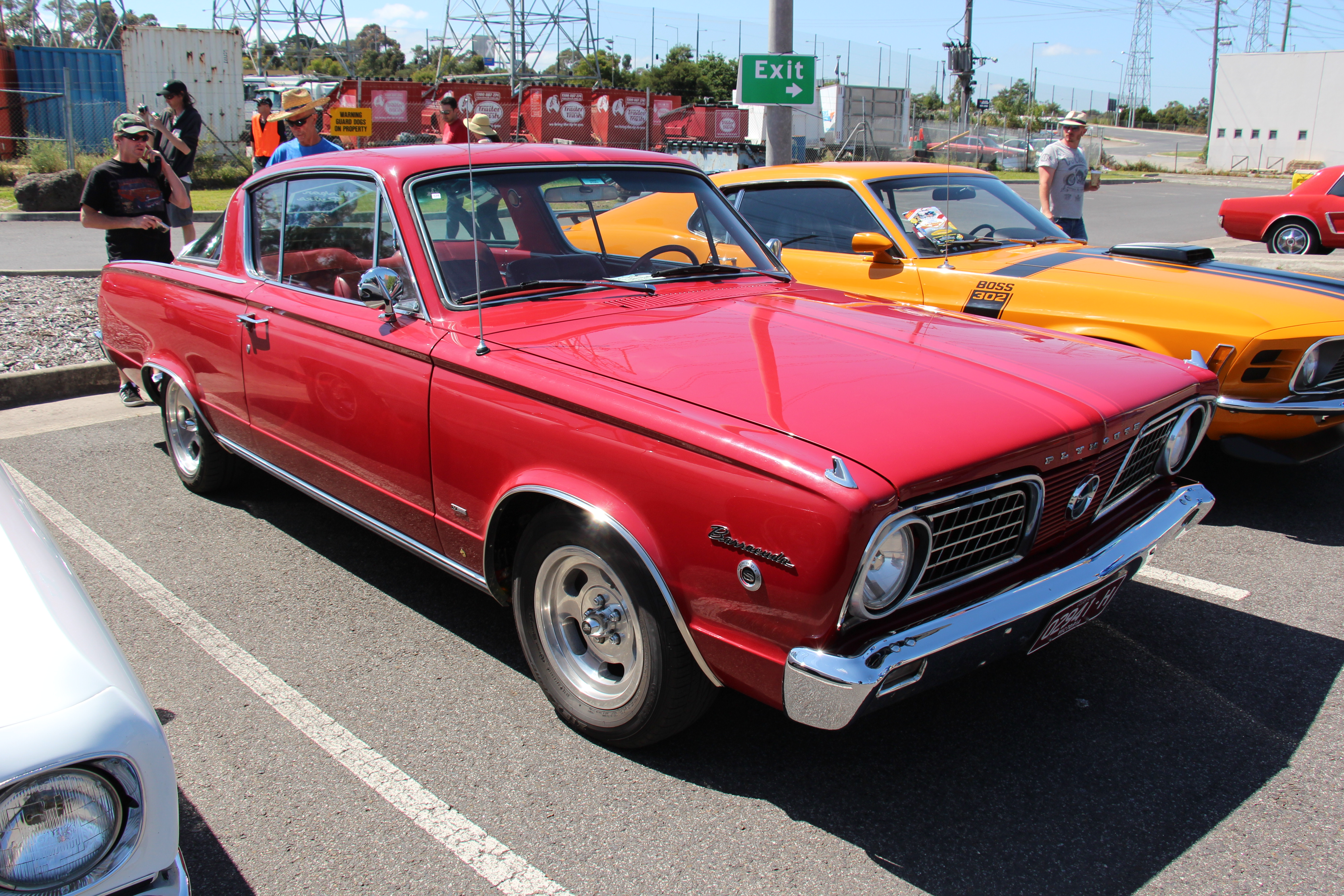 Bright Red. Barracudas were built from 1964-74, this the 1st generation, an A body, was based on the Valiant, sharing the front sheetmetal, windscreen and powertrain, but for 66 the Barracuda got a different grille and fastback rear end with unique wrap around rear window. It was available in Standard or Deluxe (fender top indicators, bigger grid in the grille) The high performance Formula S was also available (Commando V8, better suspension and disc brakes) Engines; 225 slant 6 or 273 V8 (Commando version got 4bbl)